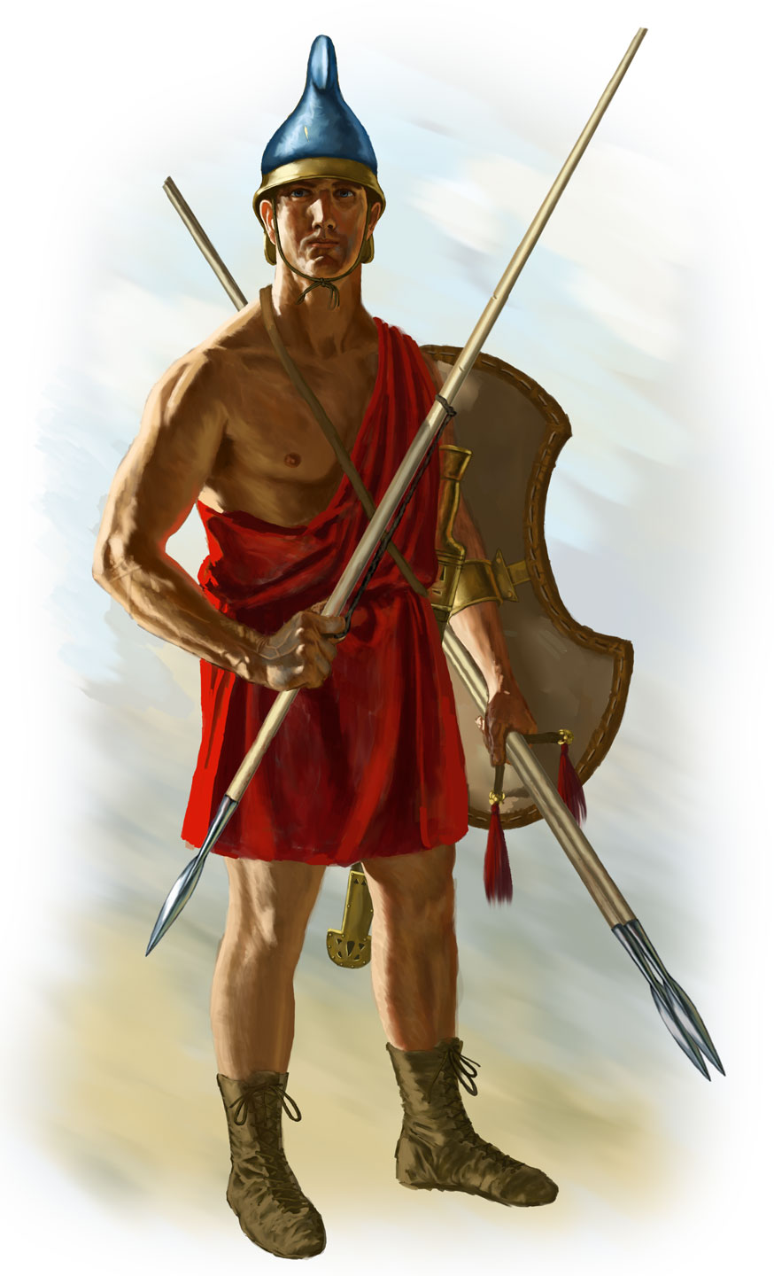 Agrianian Peltast by Johnny Shumate For more information about illustrations